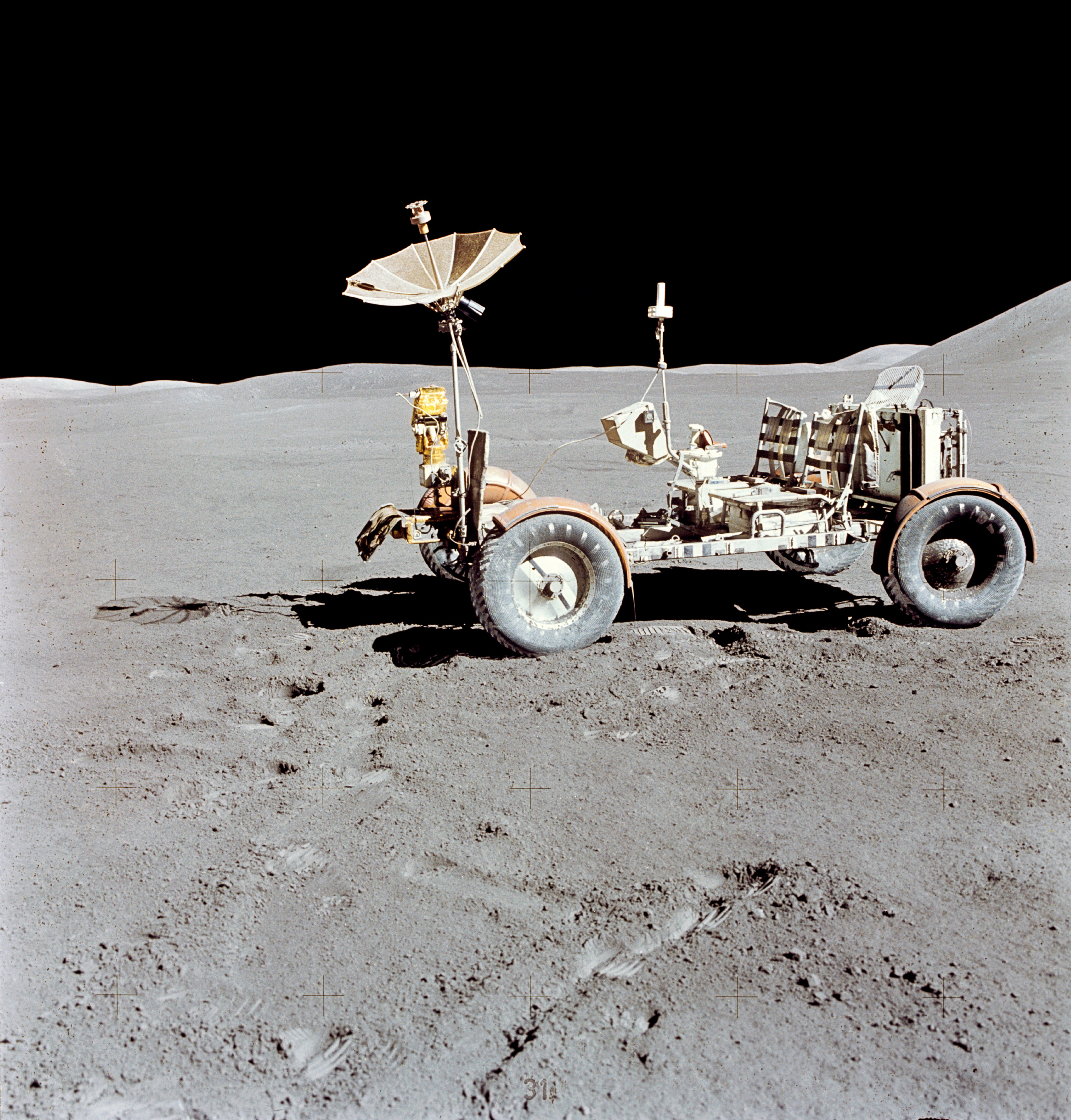 The Lunar Roving Vehicle is photographed alone against the lunar background during the Apollo 15 lunar surface extravehicular activity (EVA) at the Hadley-Apennine landing site. This view is looking north. The west edge of Mount Hadley is at the upper right edge of the picture.Mount Hadley is at the upper right edge of the picture. It rises approximately 4,500 meters (about 14,765 feet) above the plain. The most distant lunar feature visible is approximatley 25 kilometers (about 15.5 statute miles) away.